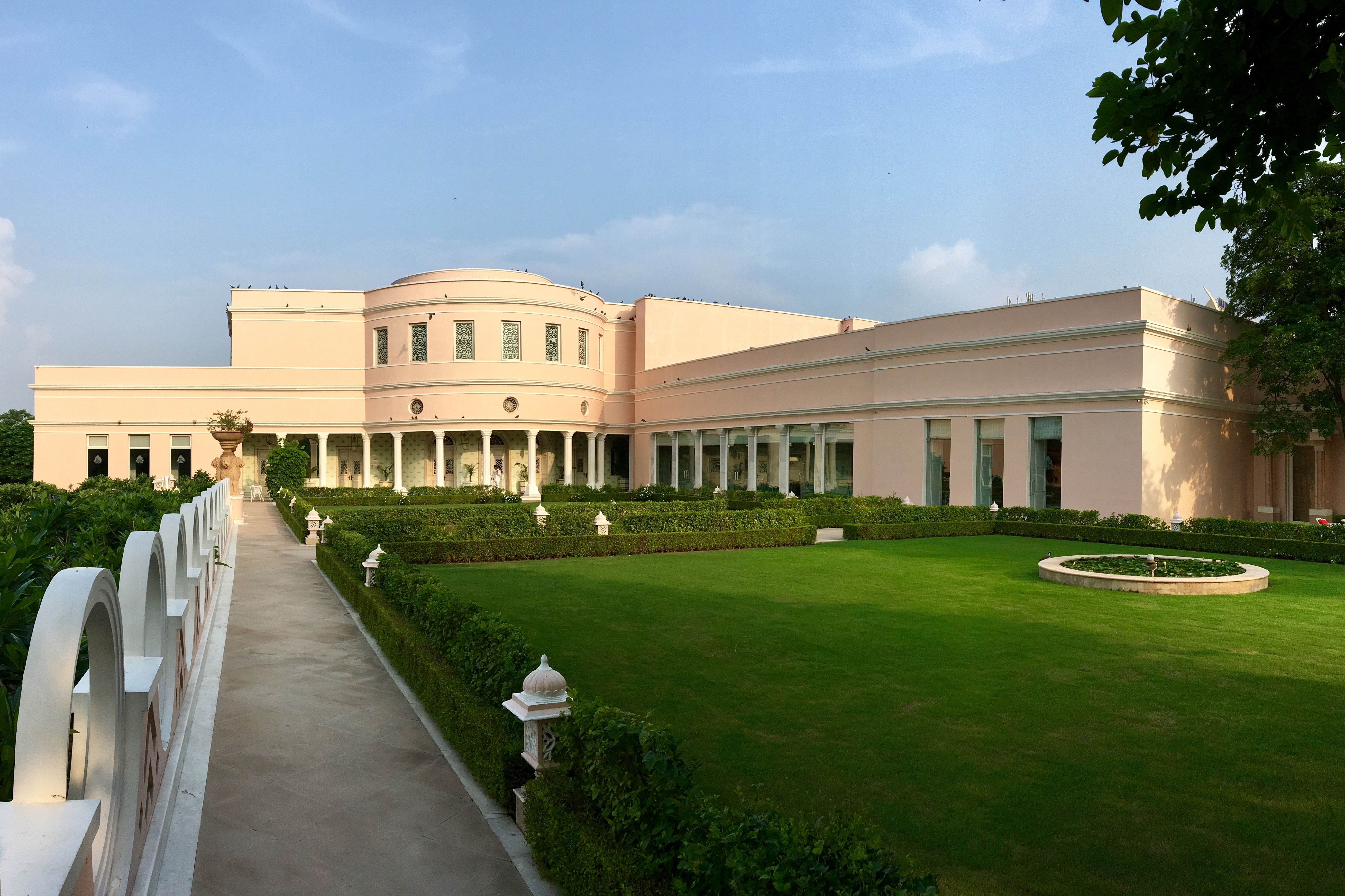 Rajmahal Palace, former private residence of the Maharajah of Jaipur, now a hotel.